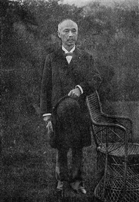 Mr. Yuzuru Kubota, the Minister of State for Education.